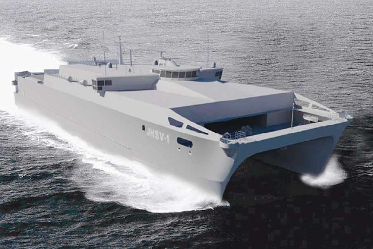 Joint High Speed Vessel concept image